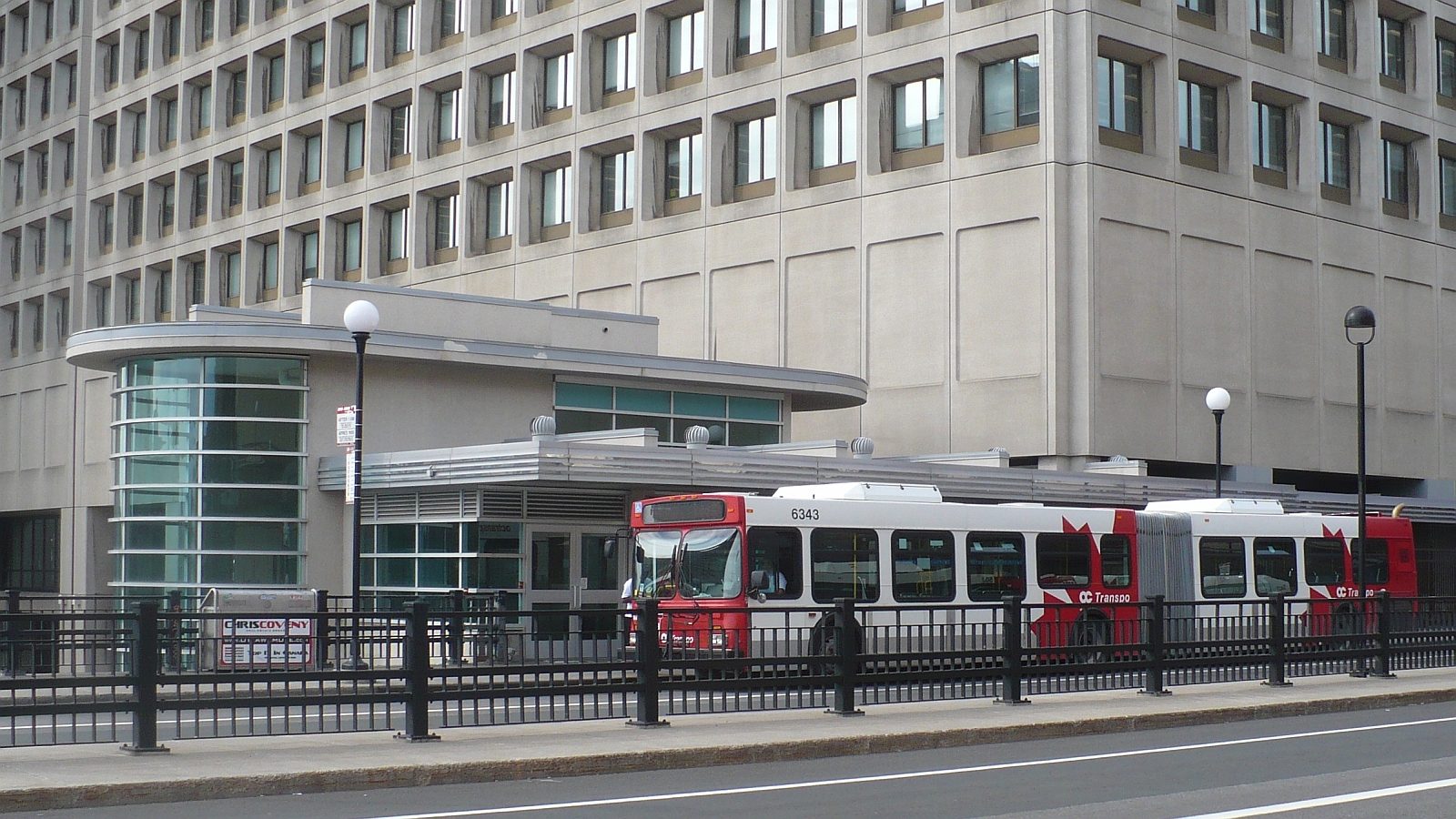 Mackenzie King Transitway station in Ottawa, in front of the National Defence Headquarters